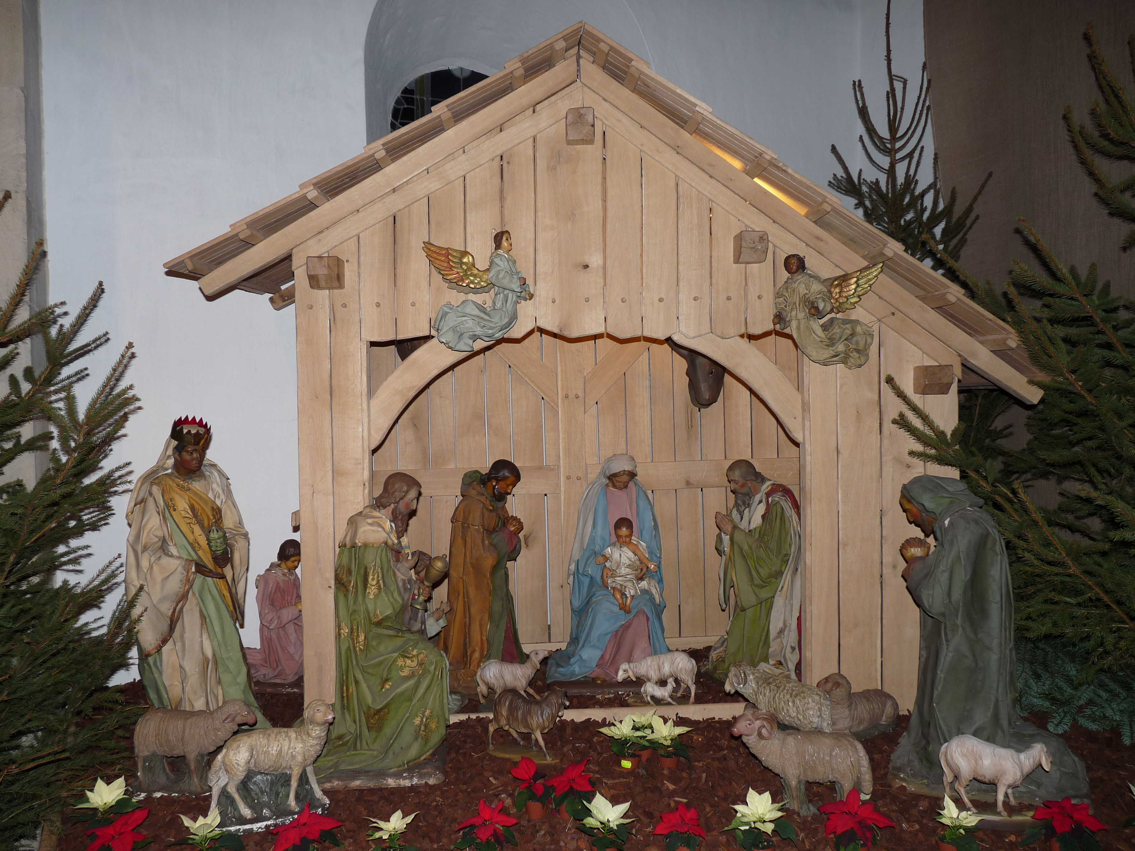 Nativity scene in St. Ludgeri in Münster (Germany)